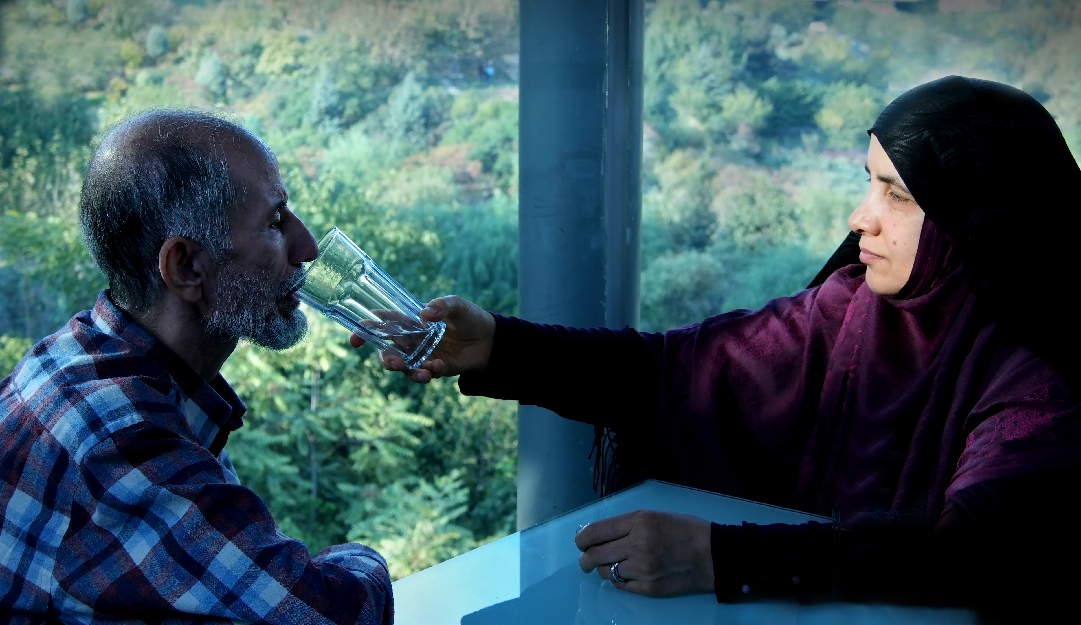 Hossein Nuri, Iranian mouth-painter and his wife Nadia Maftouni, professor of philosophy at Tehran University.